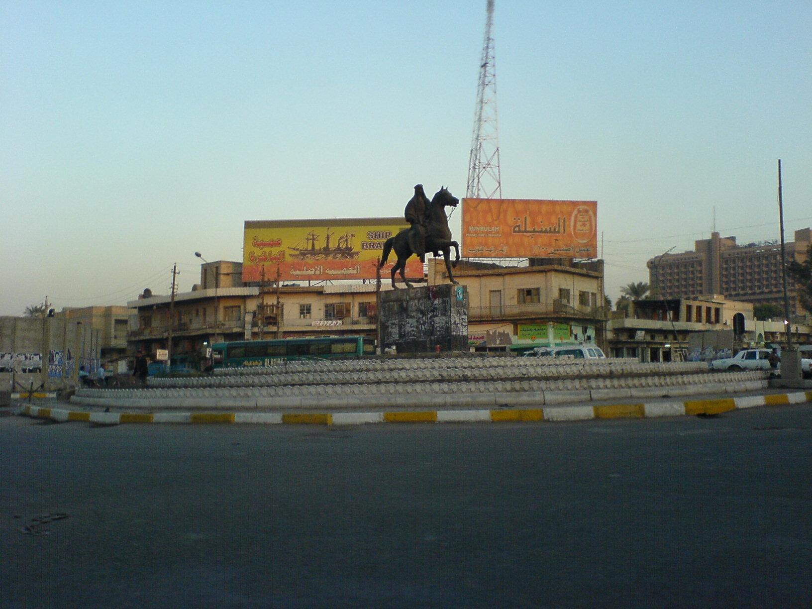 King Faisal's statue at the end of Haifa street,Baghdad,Iraq